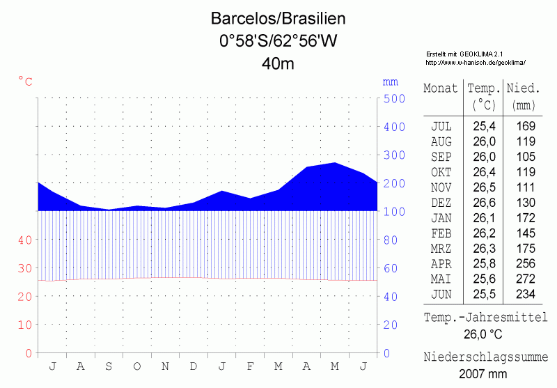 climate chart in the format by Walther and Lieth, metric, °Celsisus and millimeters, made with Geoklima 2.1